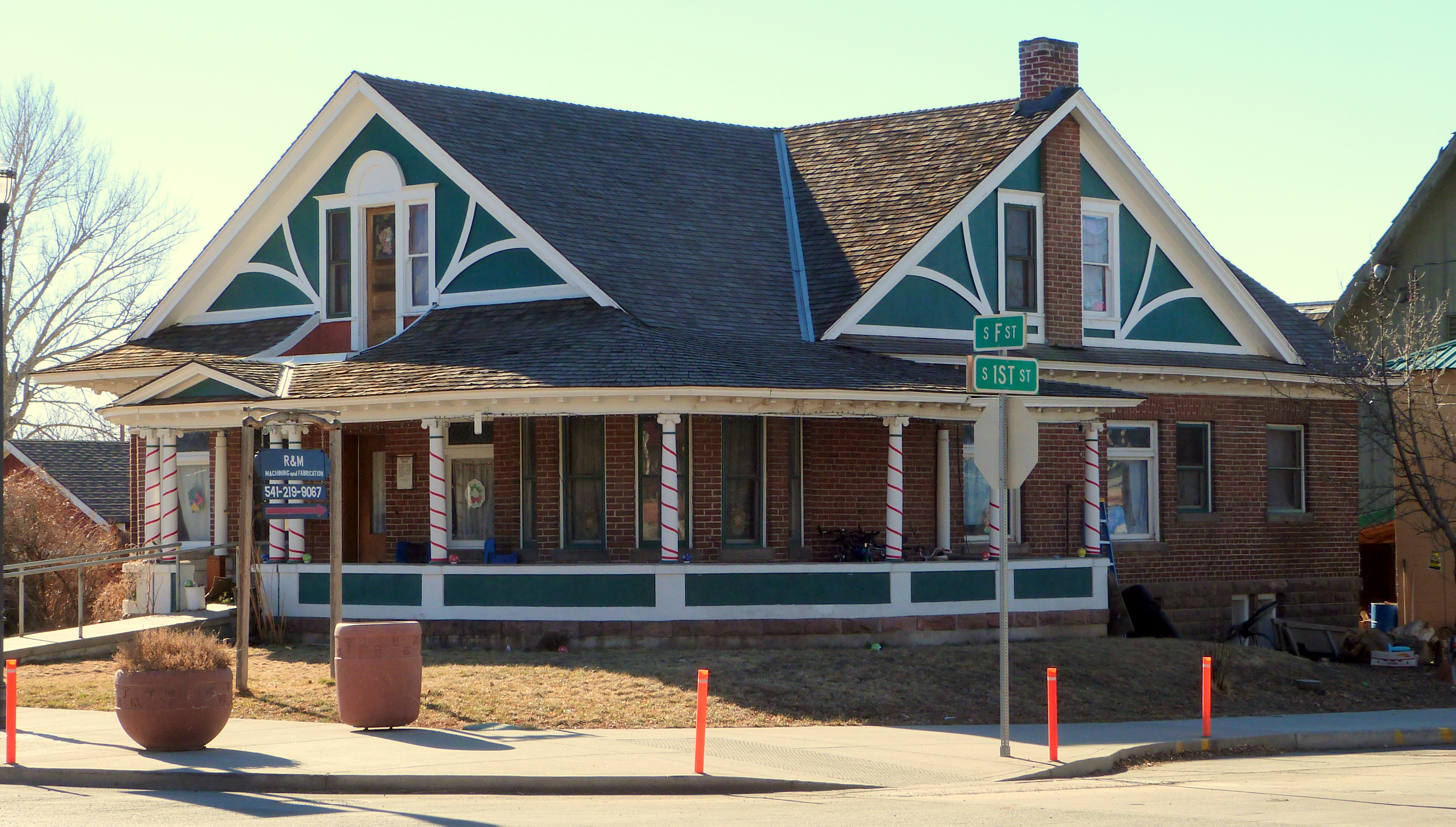 The historic William P. Heryford House (built 1911), located at 108 South F Street in Lakeview, Oregon, United States, is listed on the US National Register of Historic Places.